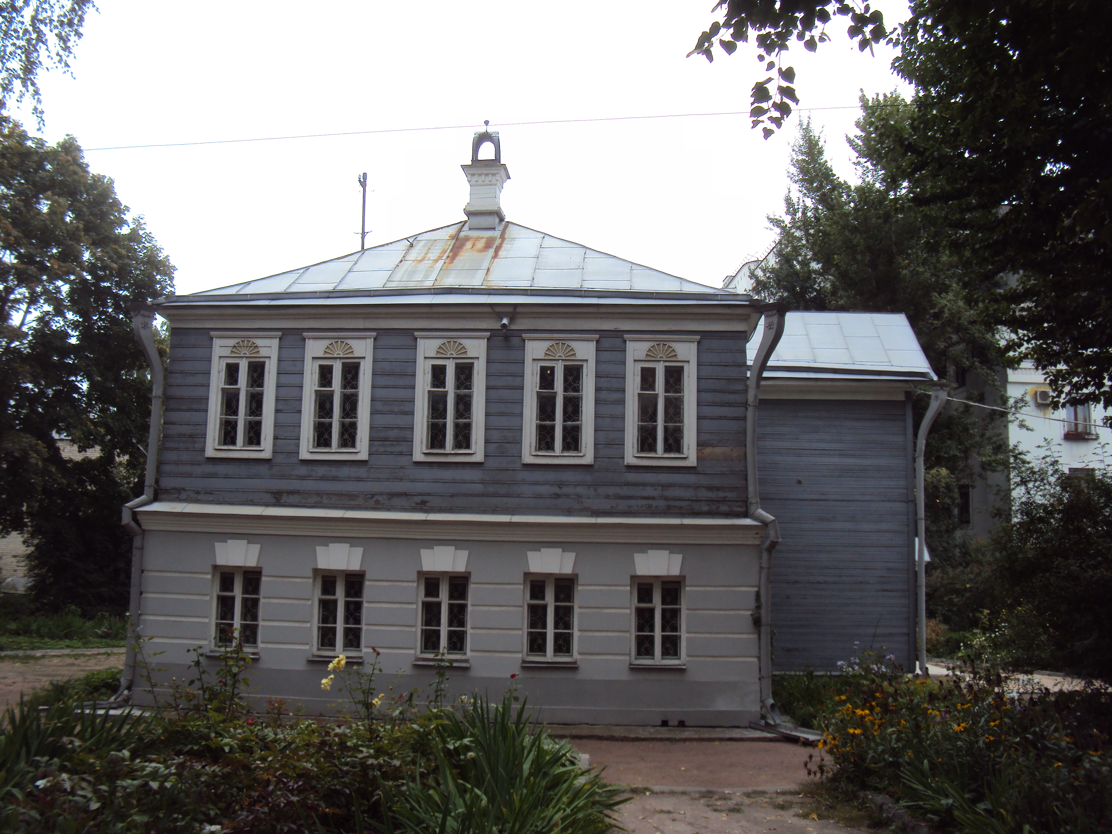 The house in which Ostrovsky was born